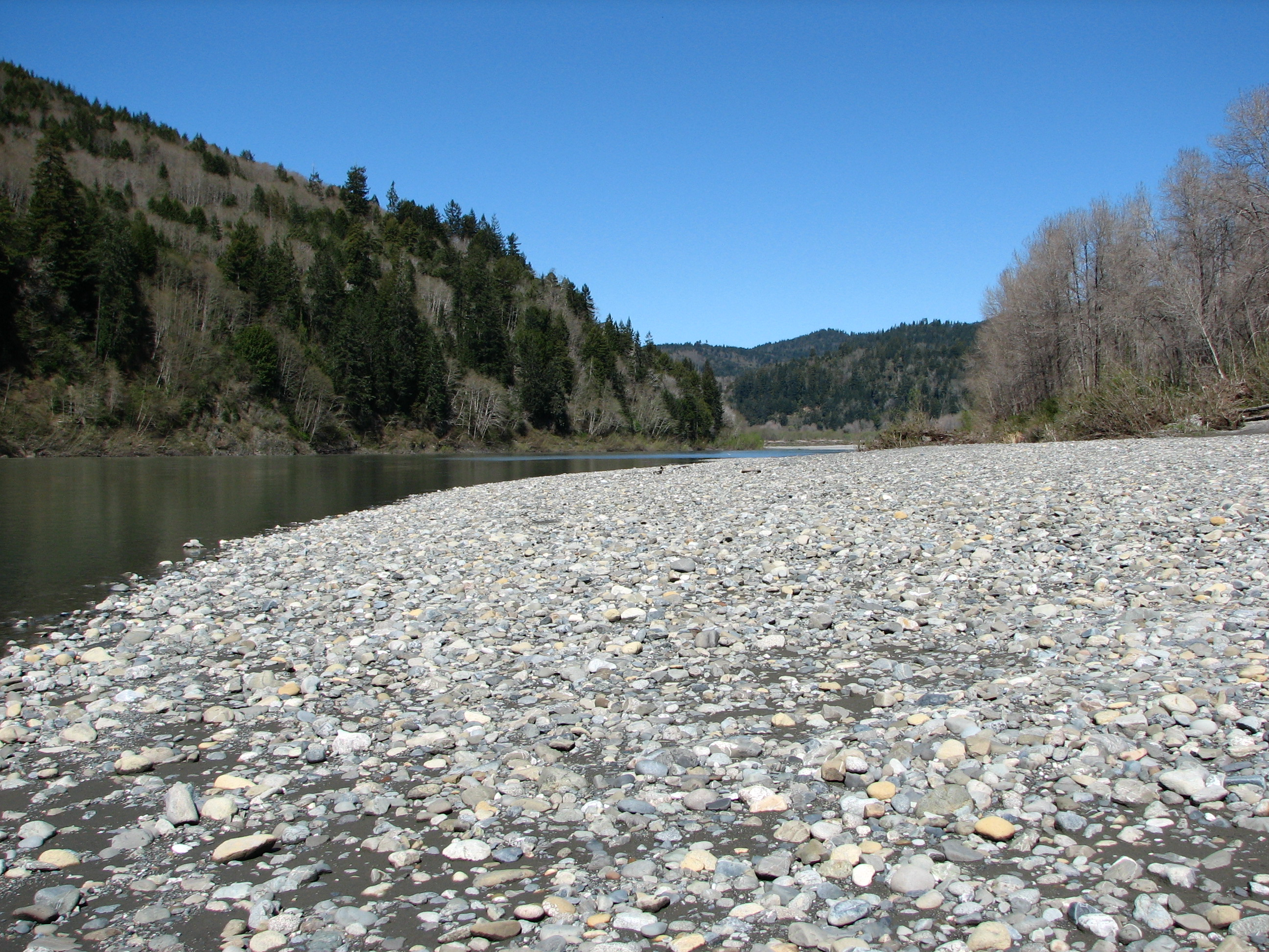 Photo of the Klamath River as seen from Klamath River, CA.